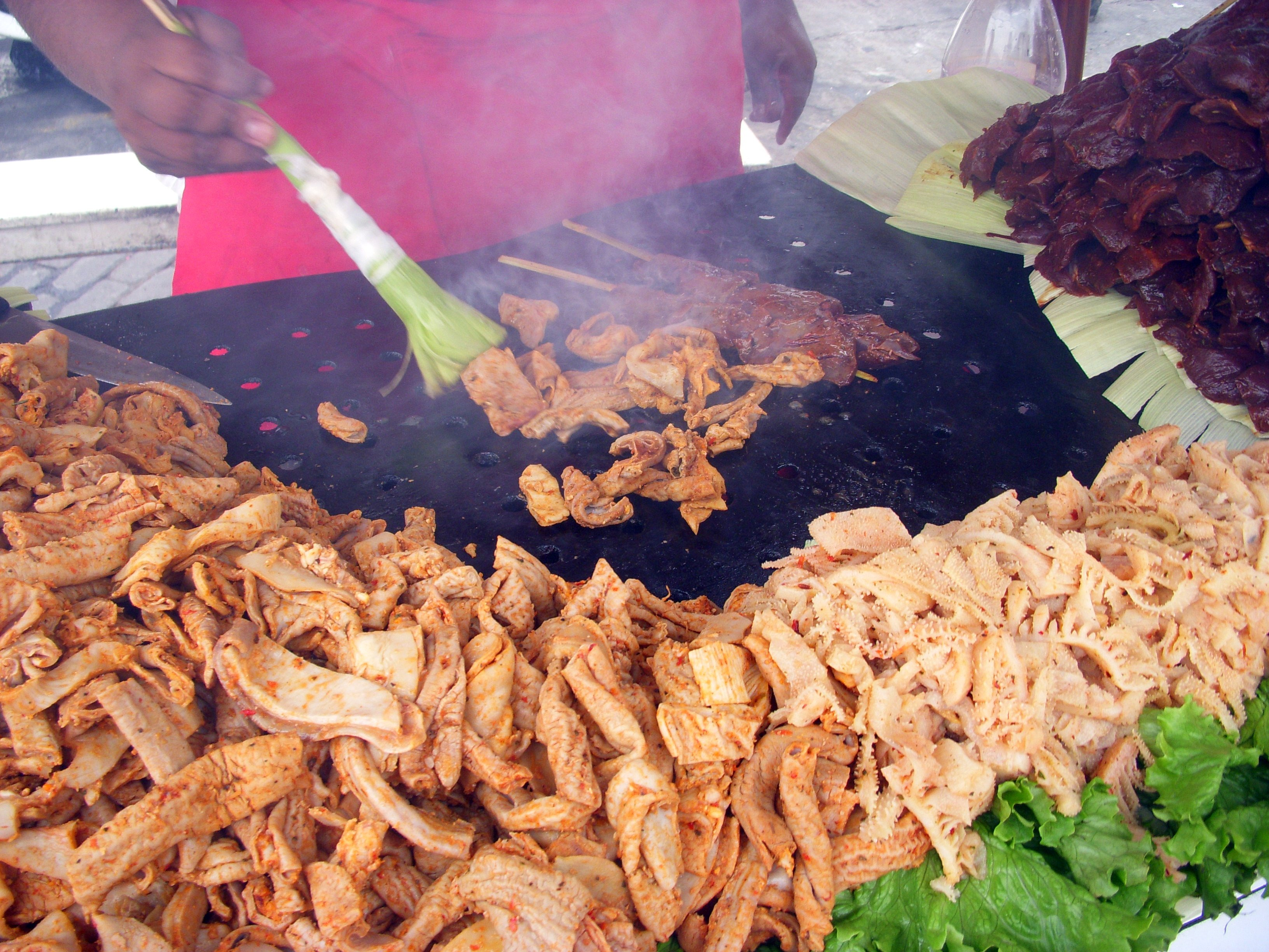 Anticuchos (beef heart skewers) can be found throughout the streets of Lima. Quite delicious and addicting.